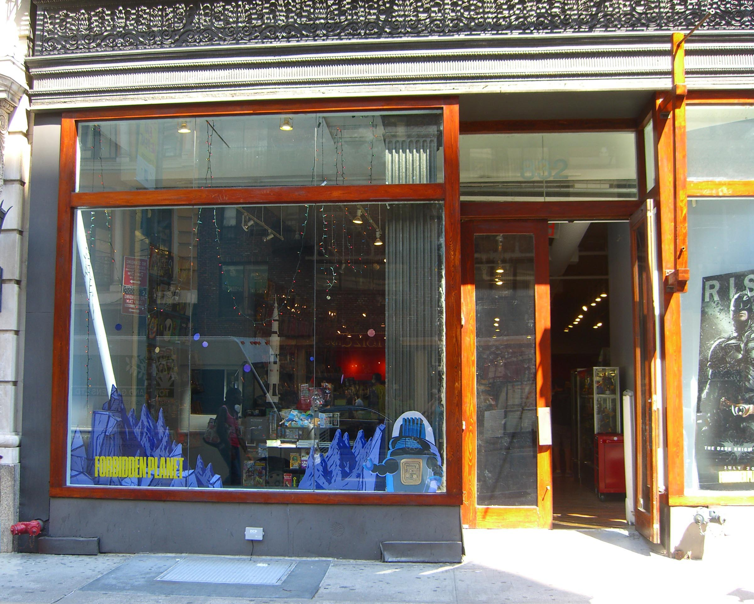 Exterior of the New York City Forbidden Planet at 832 Broadway in Manhattan, as seen on opening day, July 24, 2012. The store had previously been three doors north at 840 Broadway, on the southeast corner of East 13th Street. This photo was created by Luigi Novi. It is not in the public domain, and use of this file outside of the licensing terms is a copyright violation.